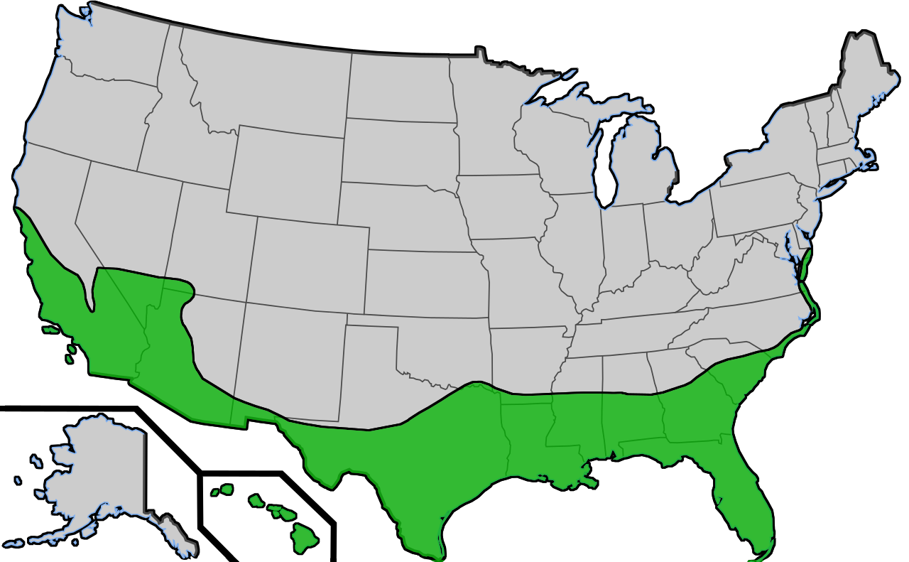 The approximate range of cultivation for Sabal Palmettos in the US with little to no winter protection.